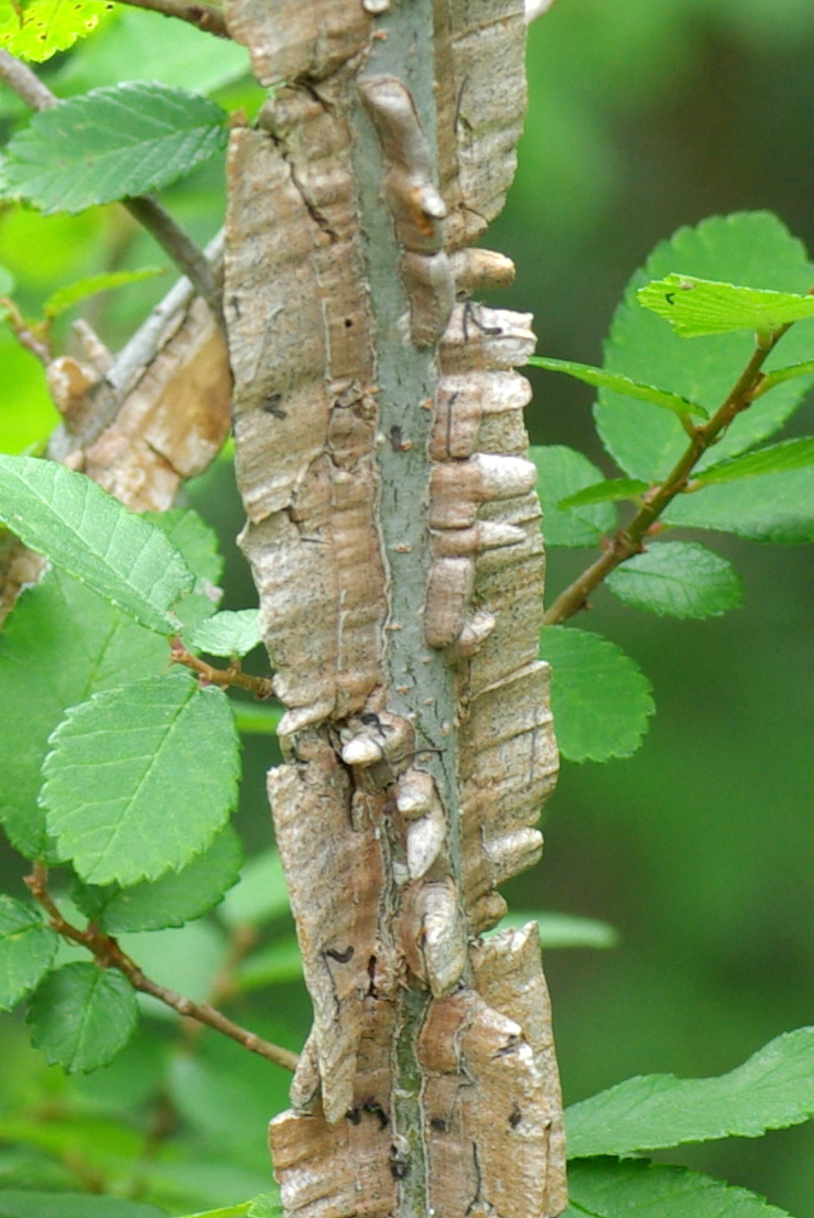 Close up of small Winged Elm Ulmus alata showing corky wings of trunk. Photo taken along Spring Creek in Garland, Texas.